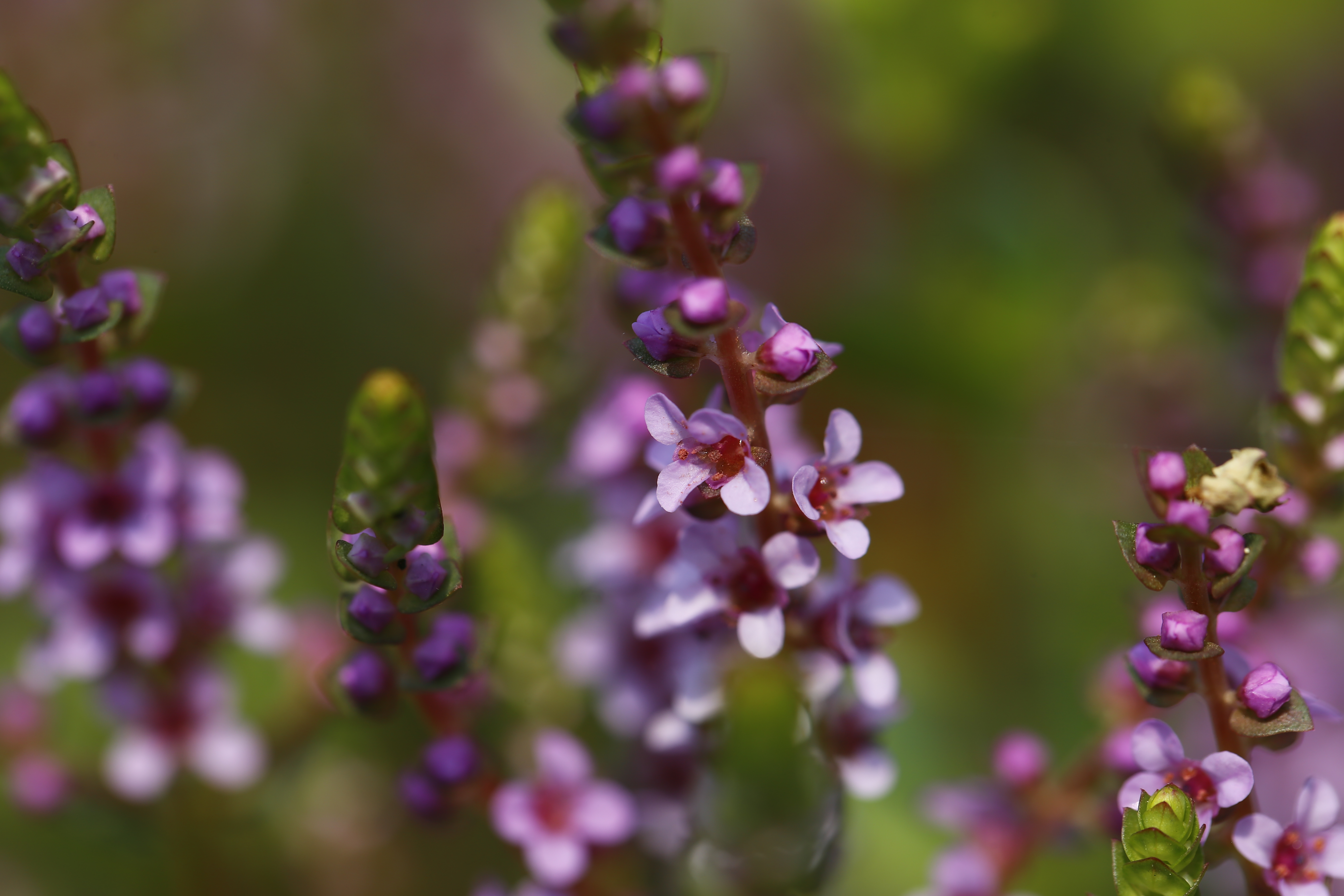 Flowers of Rotala sp